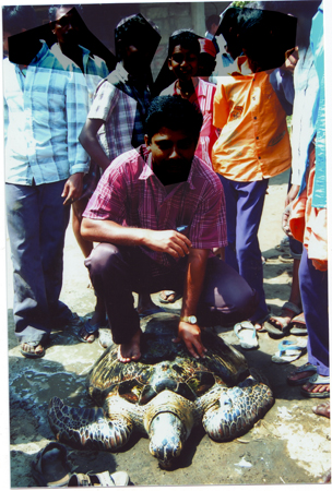 Kadalama